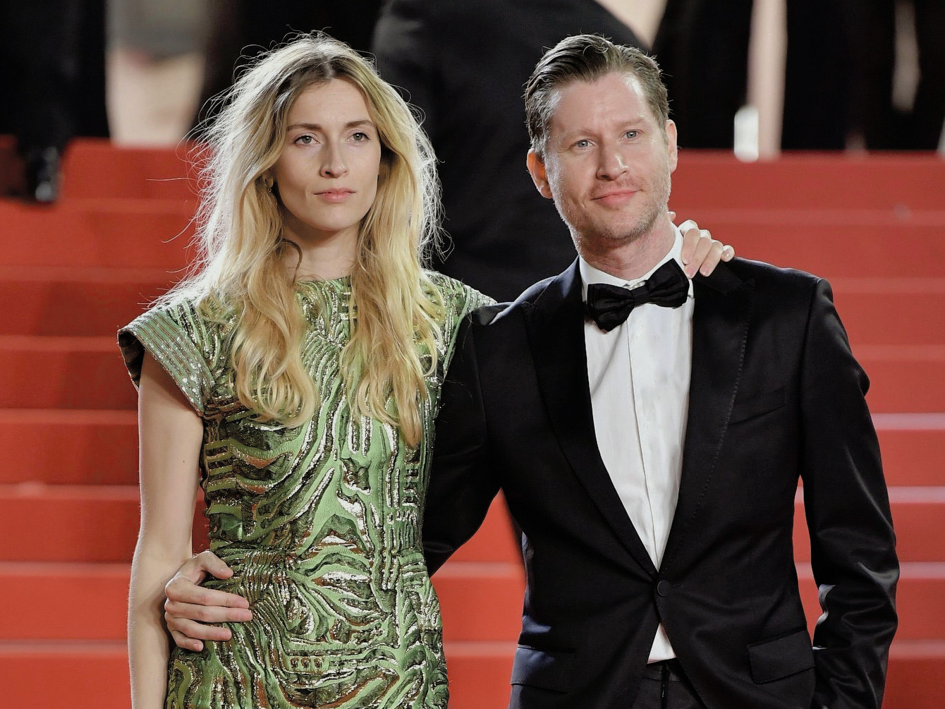 'Sign Gene' stars Emilio Insolera and Carola Insolera on the Red Carpet during 71st Cannes Film Festival.